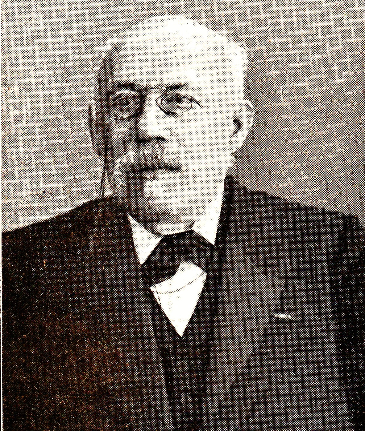 Louis Aronstein